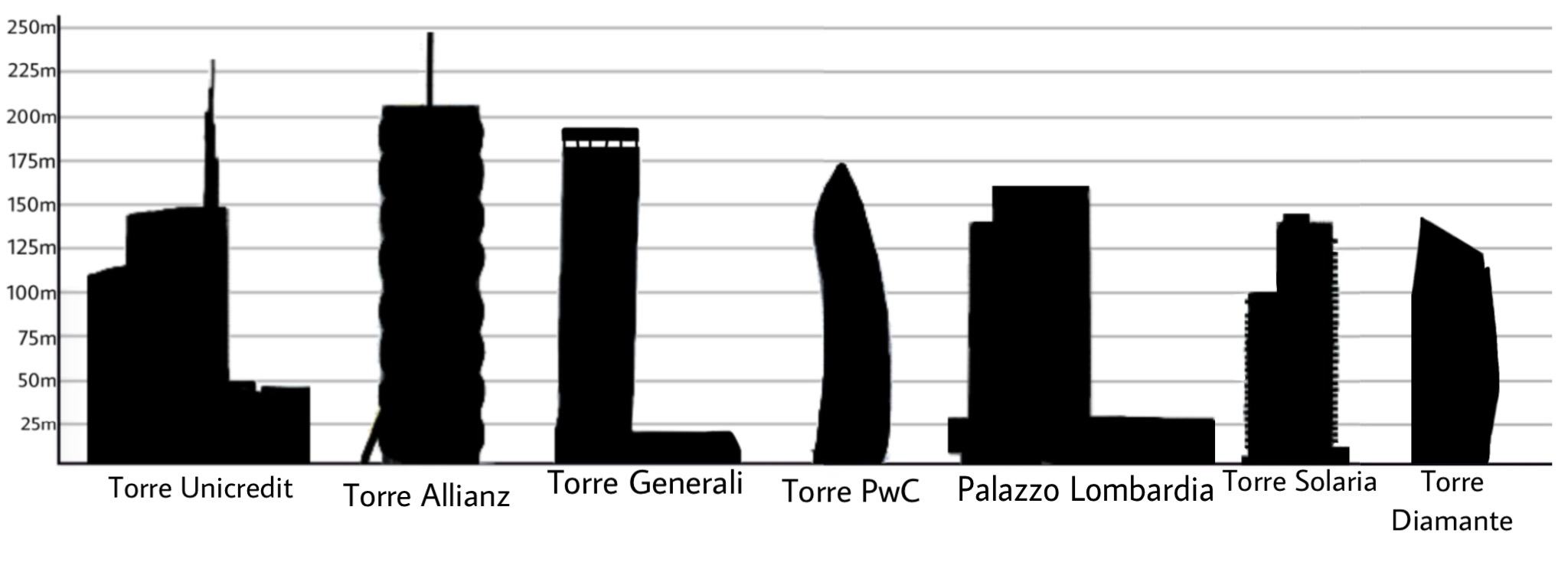 The seven tallest skyscrapers in Milan.